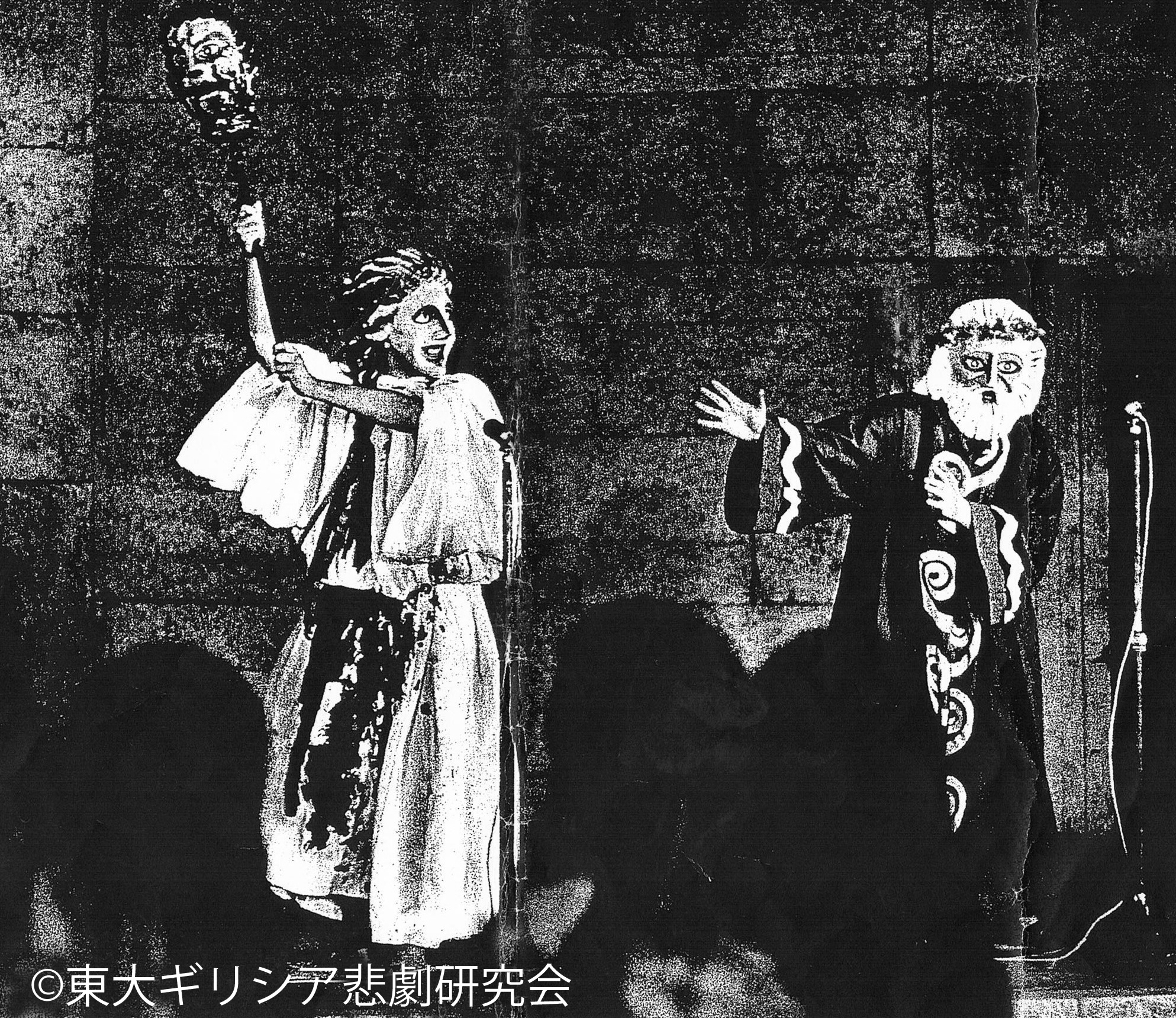 Greek Tragedy 1967 Tokyo University Greek Tragedy Institute-c